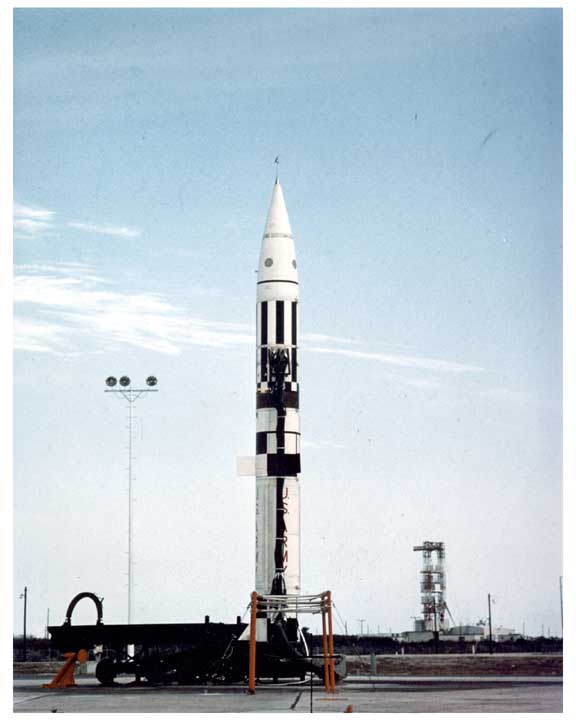 XM14 R&D test missile (later XMGM-31A) before first launch.